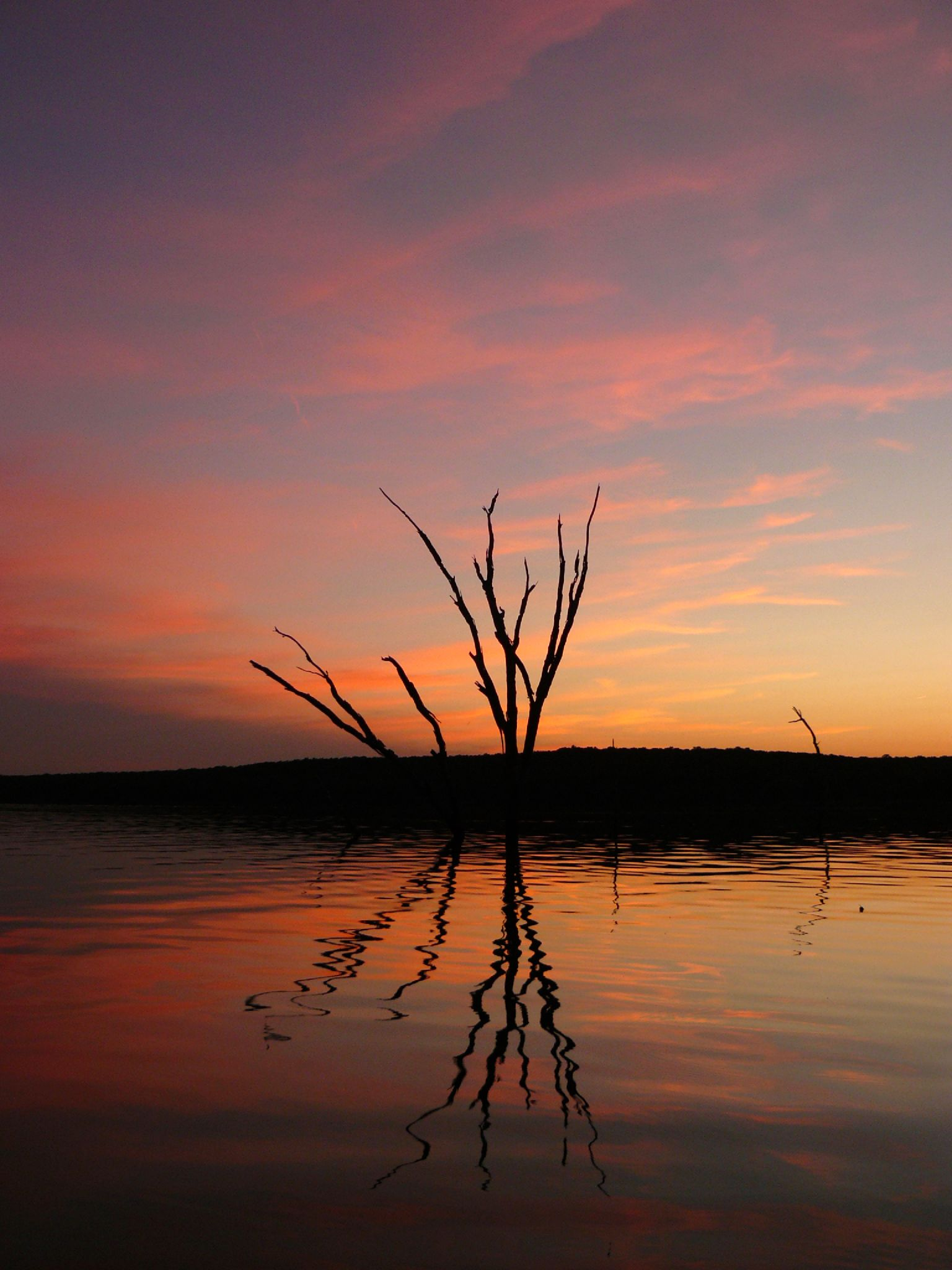 Kayaking in Okmulgee at the State Park.